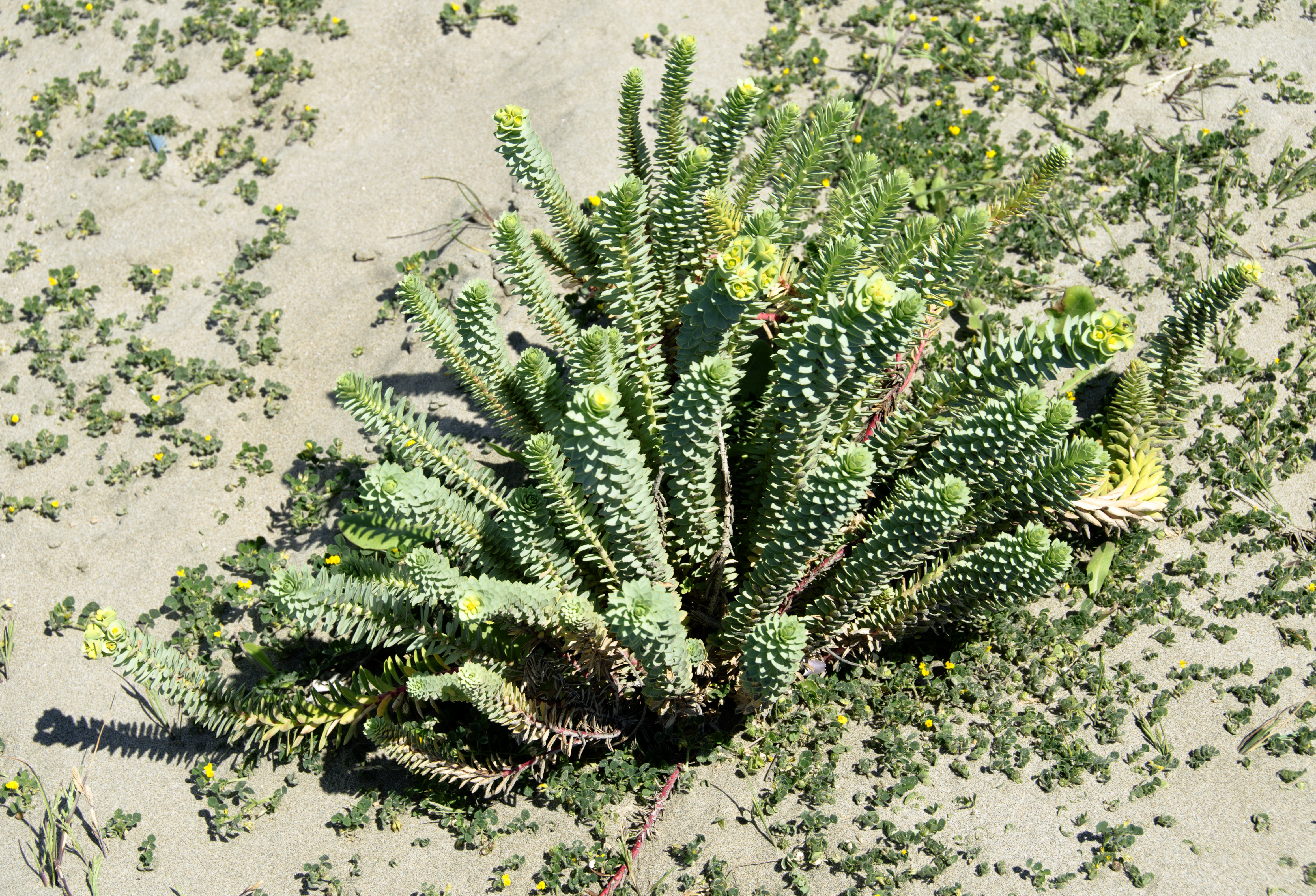 Sea spurge (Euphorbia paralias) at Harbiş Sand dunes, Karataş - Adana, Türkiye.